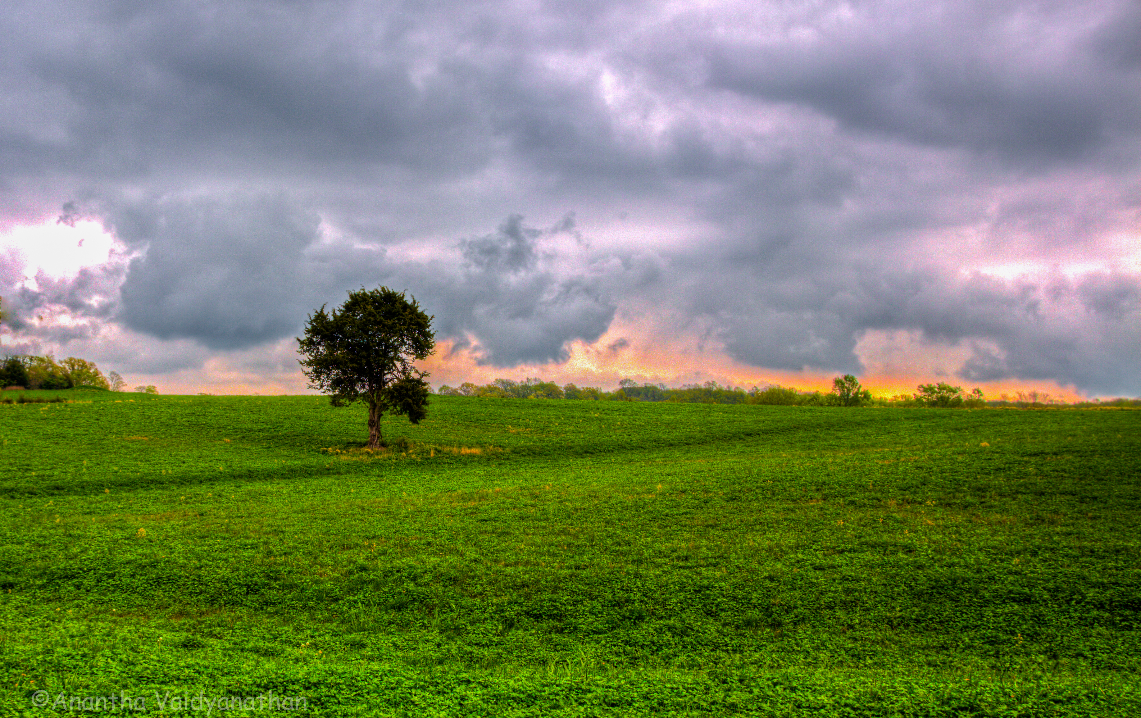 I found this lush green scene at the A. Busch Memorial Conservation area this weekend